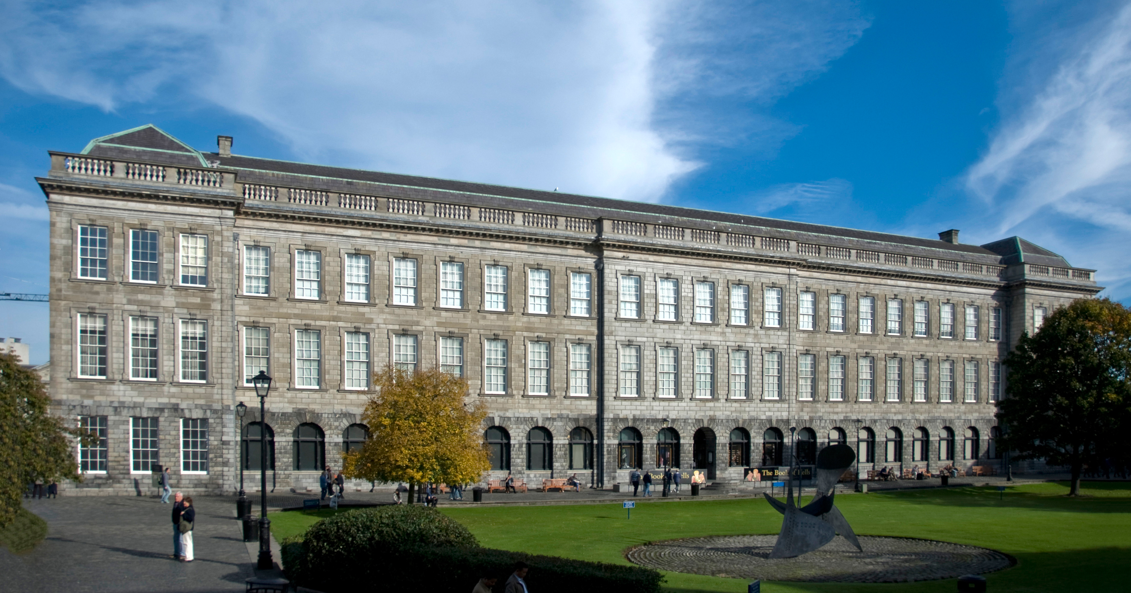 The Old Library Building at Trinity College Dublin with the “Long Room”, housing ancient manuscripts including the Book of Kells.